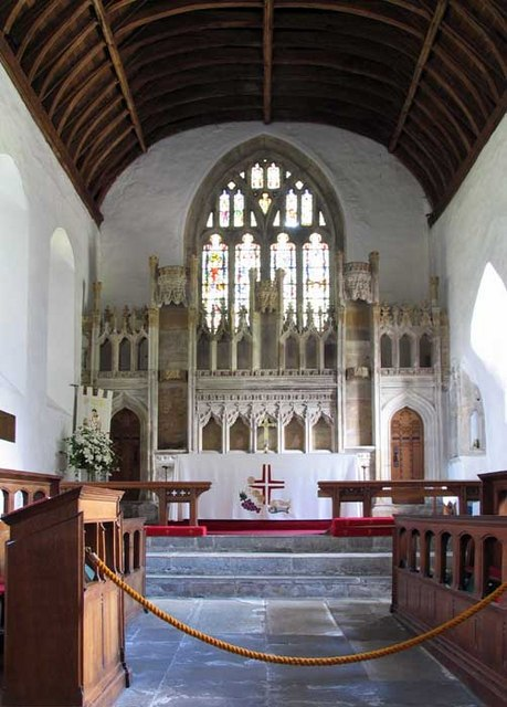 St Illtud, Llantwit Major, Glamorgan, Wales - Chancel